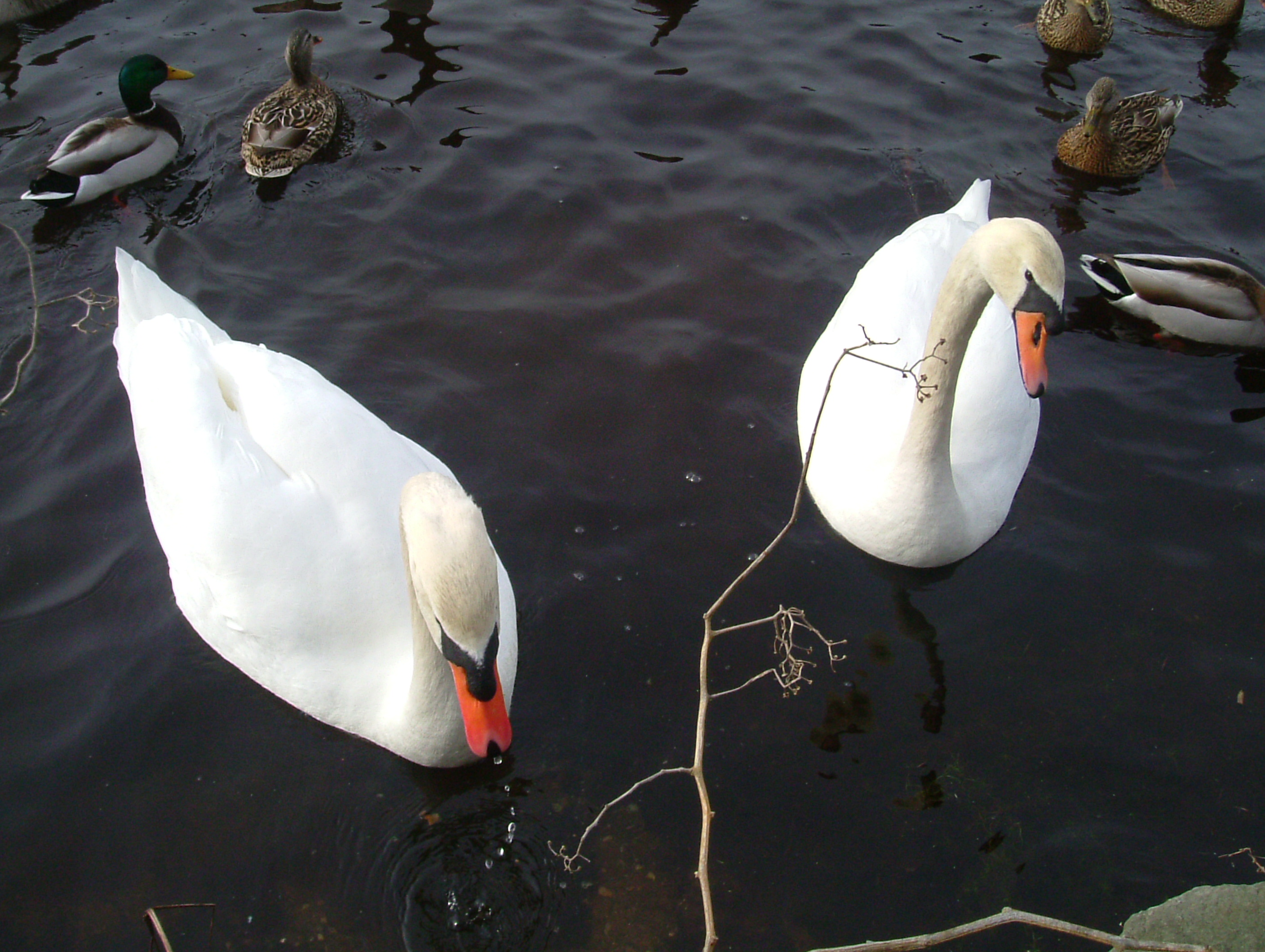 Swan River/lake Patchogue, NY 11772